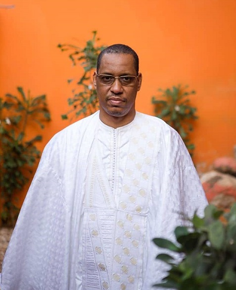 mozdahir